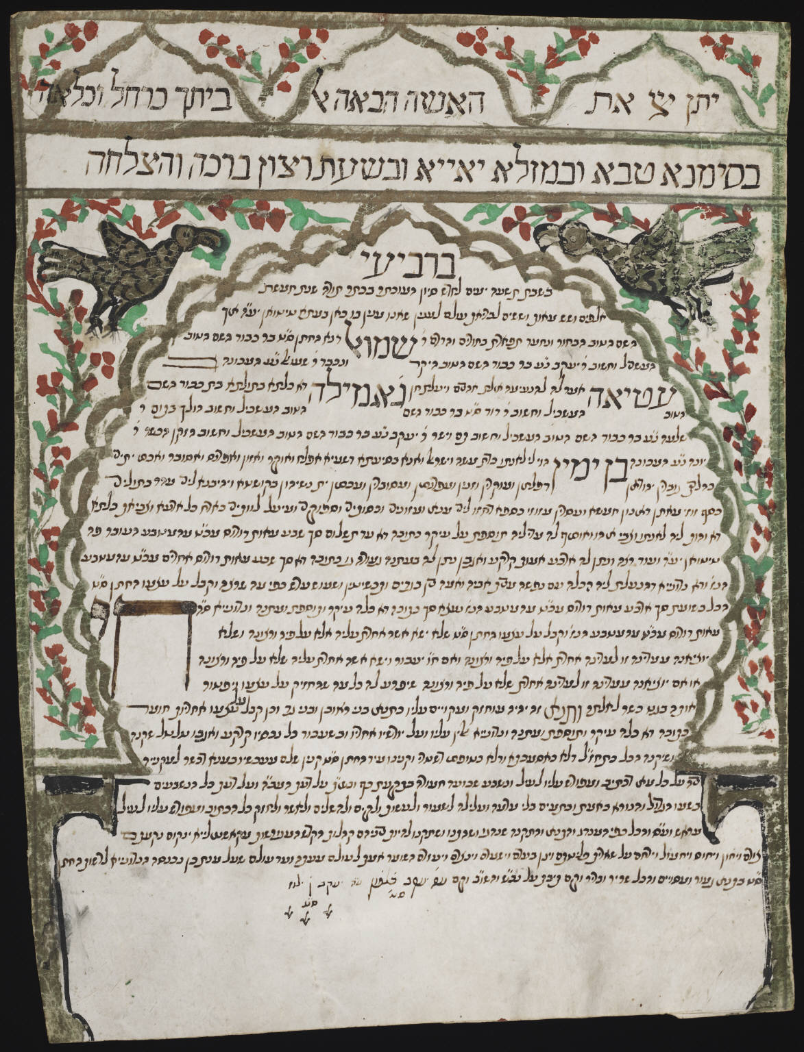 A traditional illustrated ketubah (Jewish marriage contract).